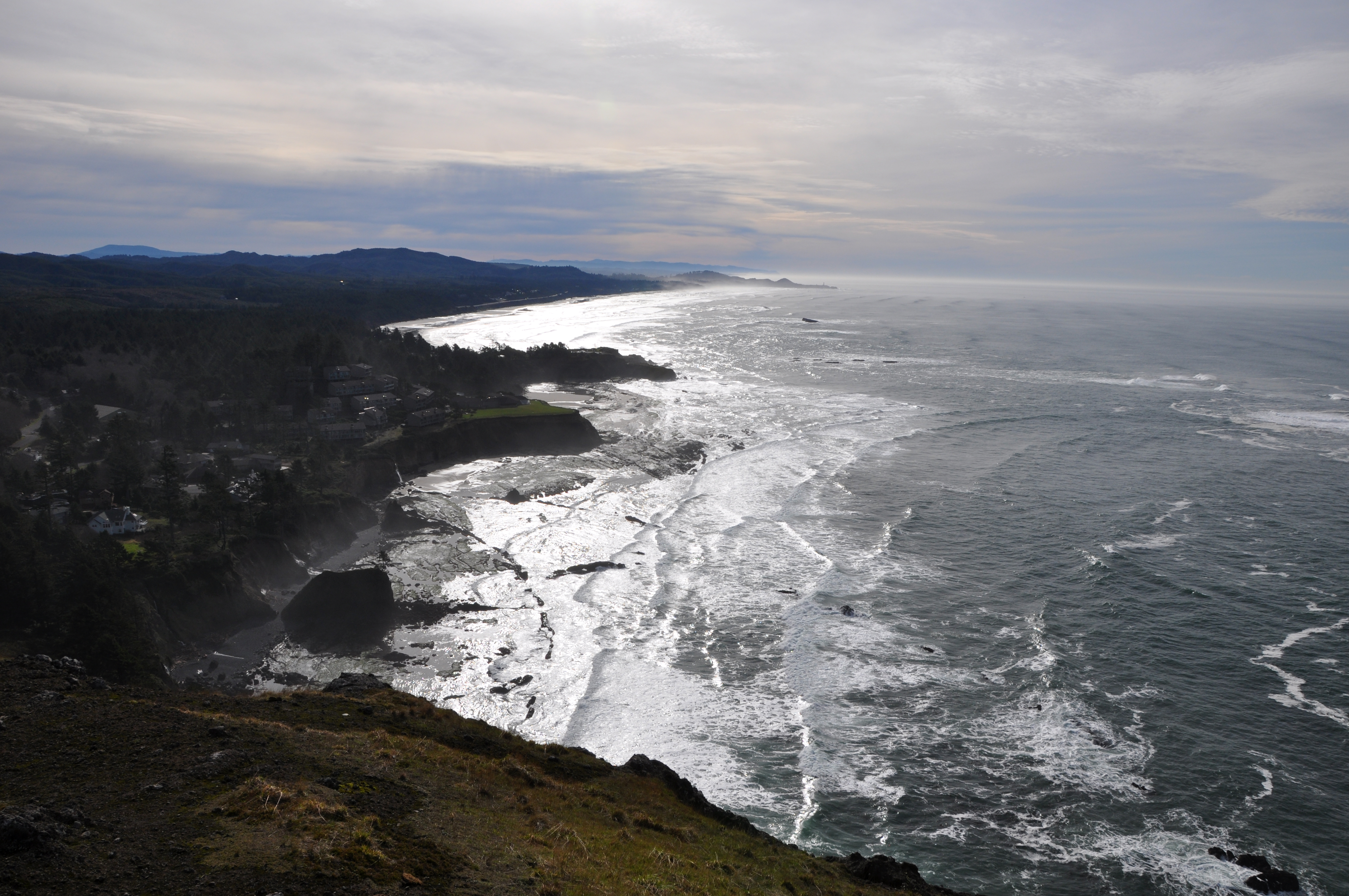 View to the south from Otter Crest State Scenic Viewpoint near Cape Foulweather, between Lincoln City and Newport in the U.S. state of Oregon